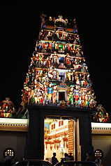 temple